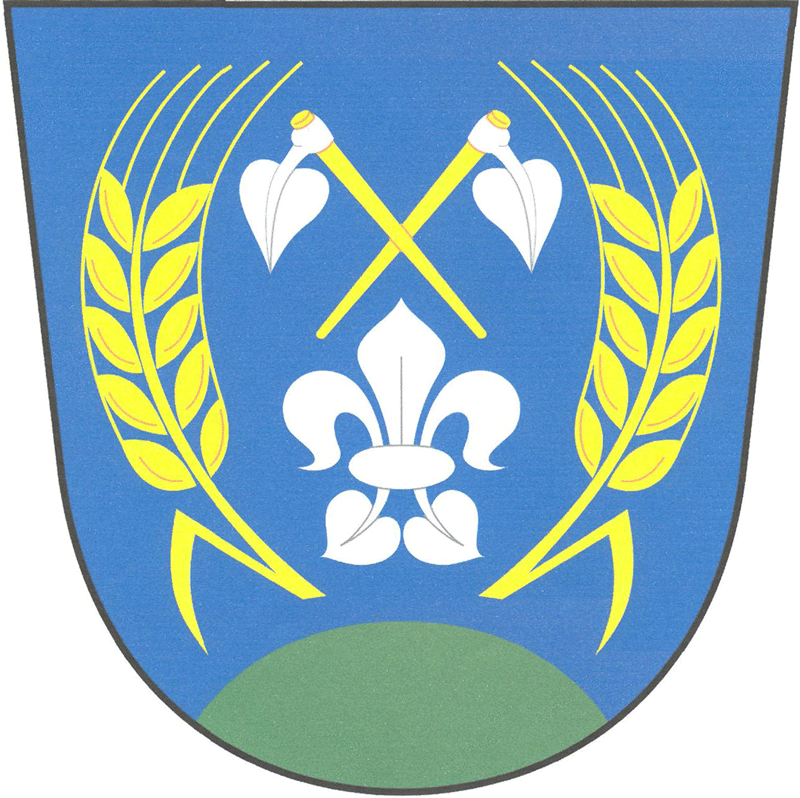 Coat of amrs of Zbenice , District Příbram, Czech Republic